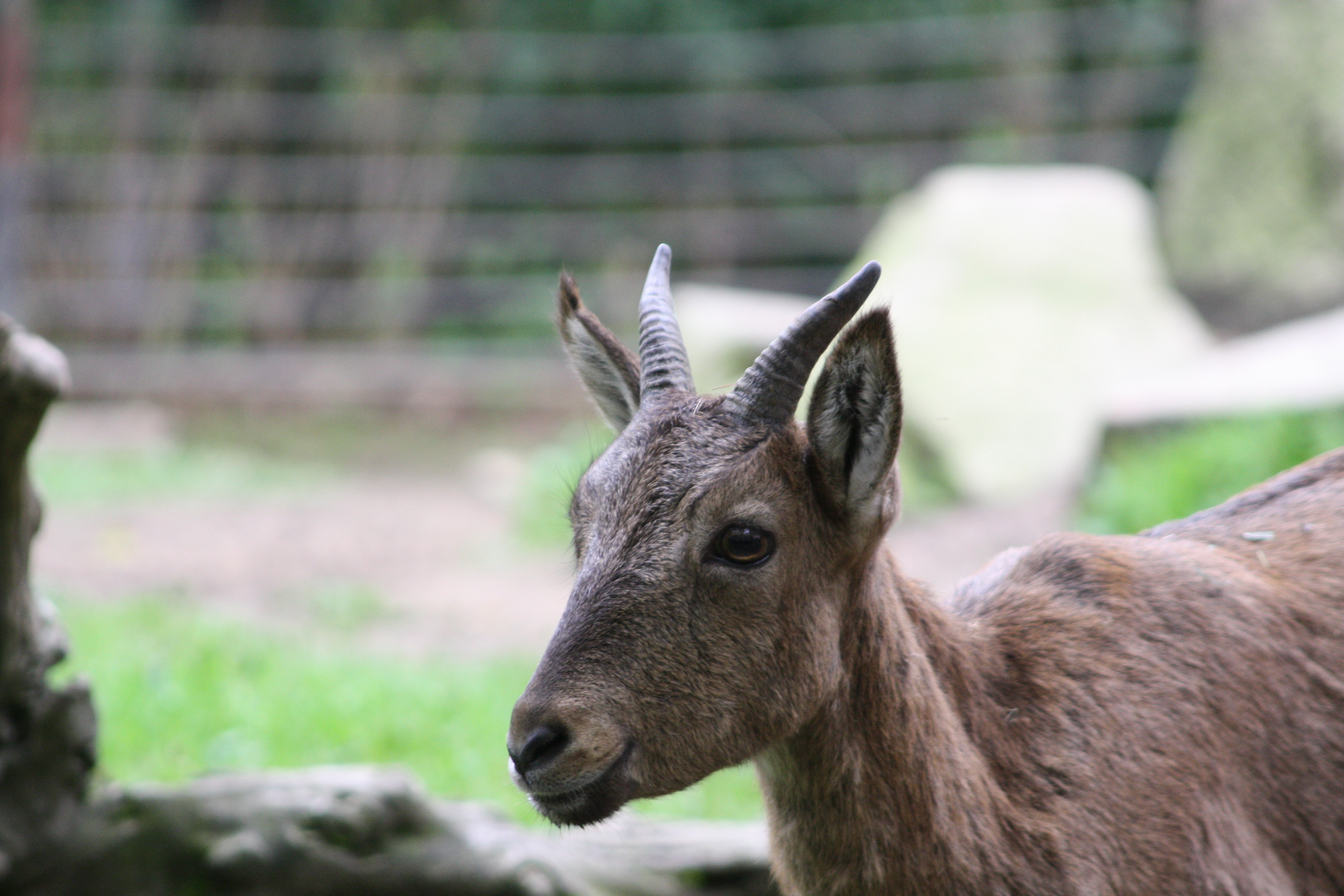 Head of young Capra cylindricornis in Liberec Zoo.